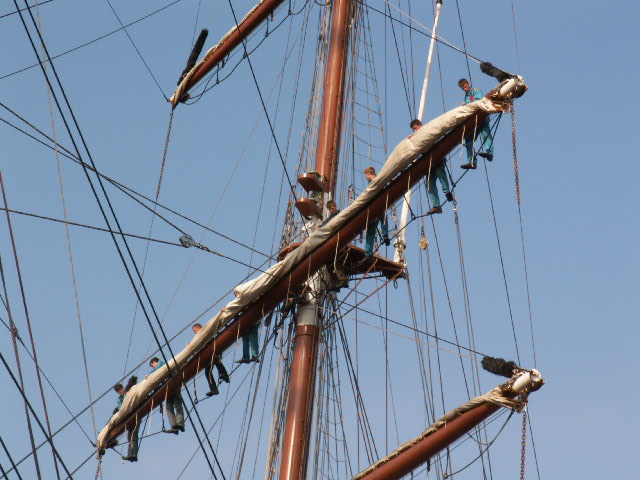 Three-master rigging Author: Mathieu Dréo (User:Nojhan) Date: 2005, august, 21 Notes: Taken in Amsterdam, during Sail 2005.